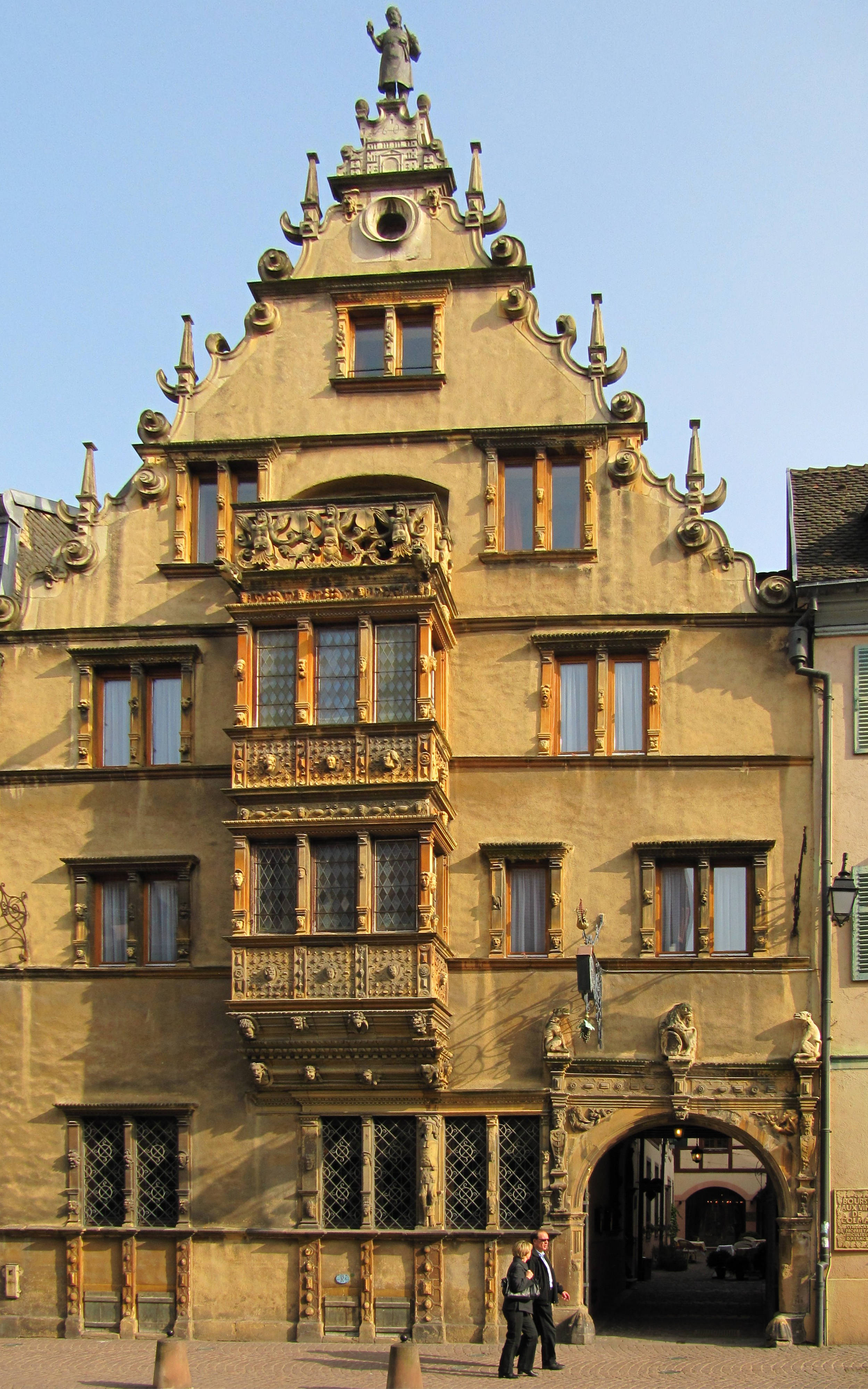 House of the Heads in 19 rue des Têtes in Colmar (Haut-Rhin, France). .